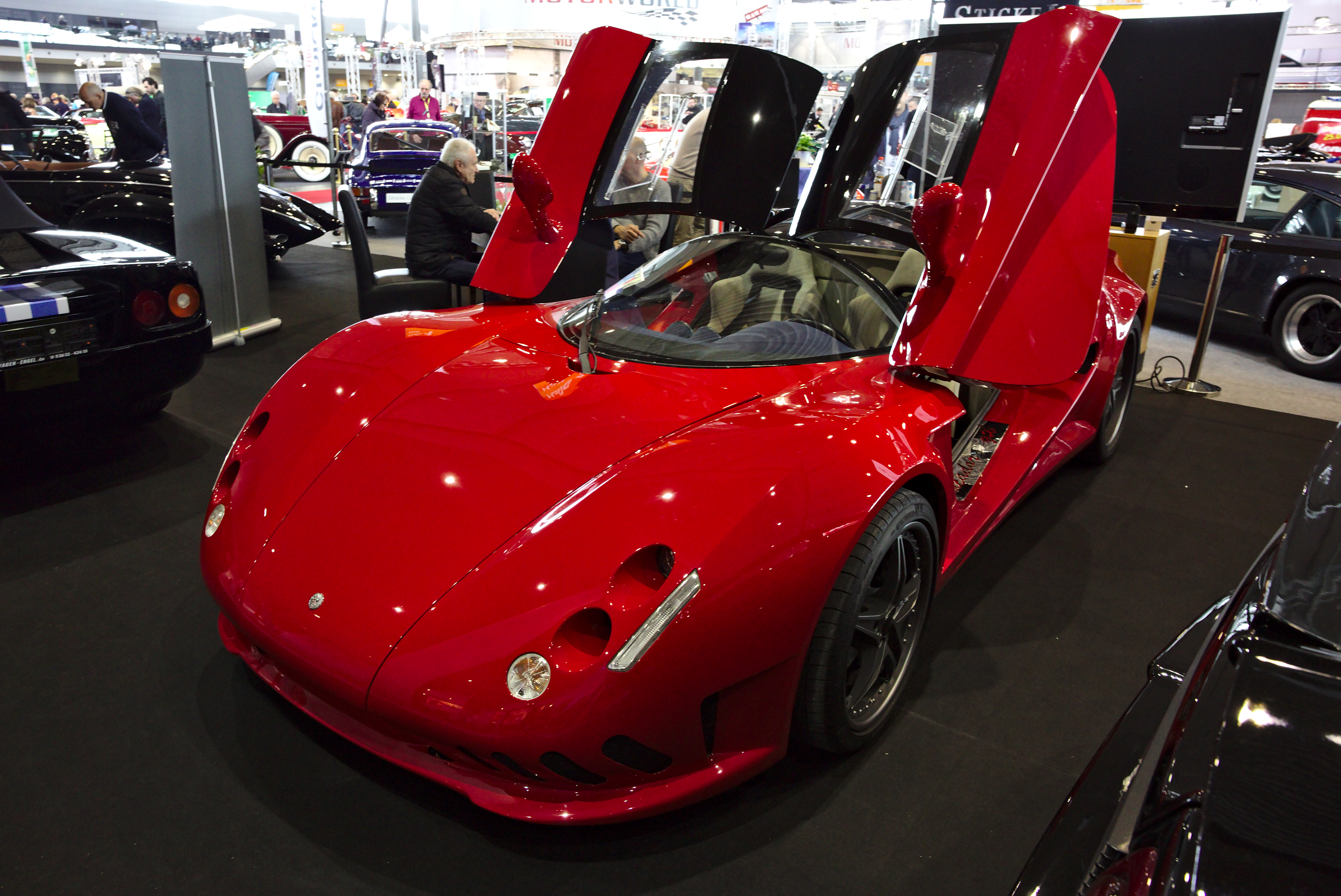 Sbarro Alcador GTB F1 at Retro Classics 2018